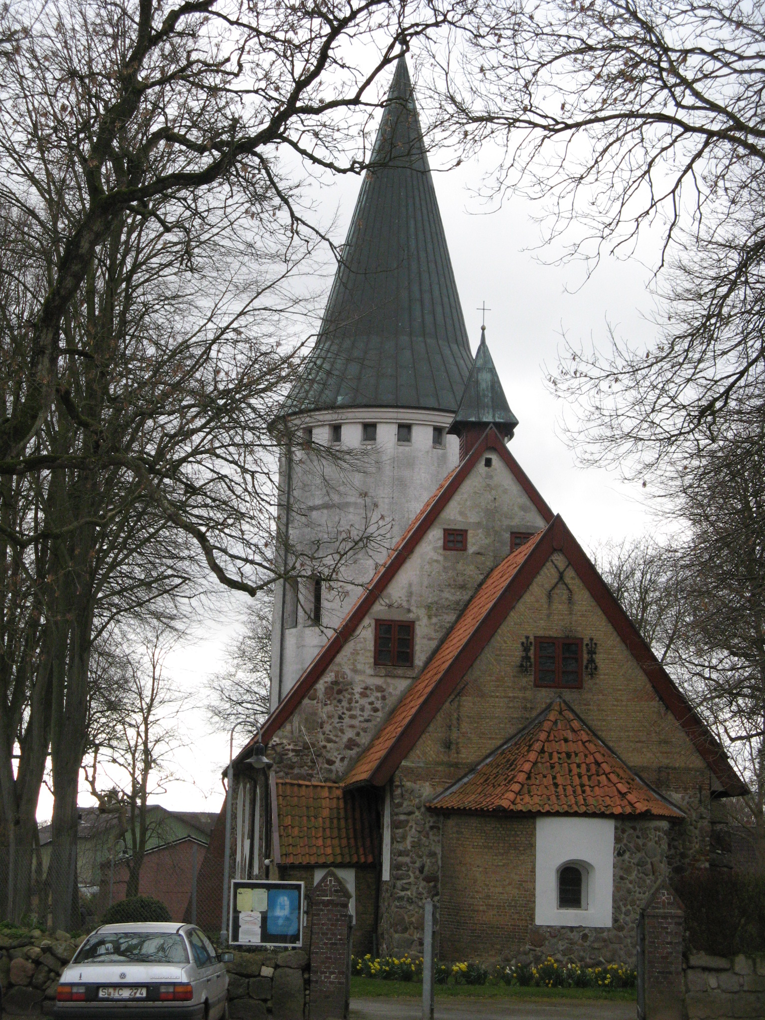 st. catharine church in Süderstapel Author: Dirk Ingo Franke